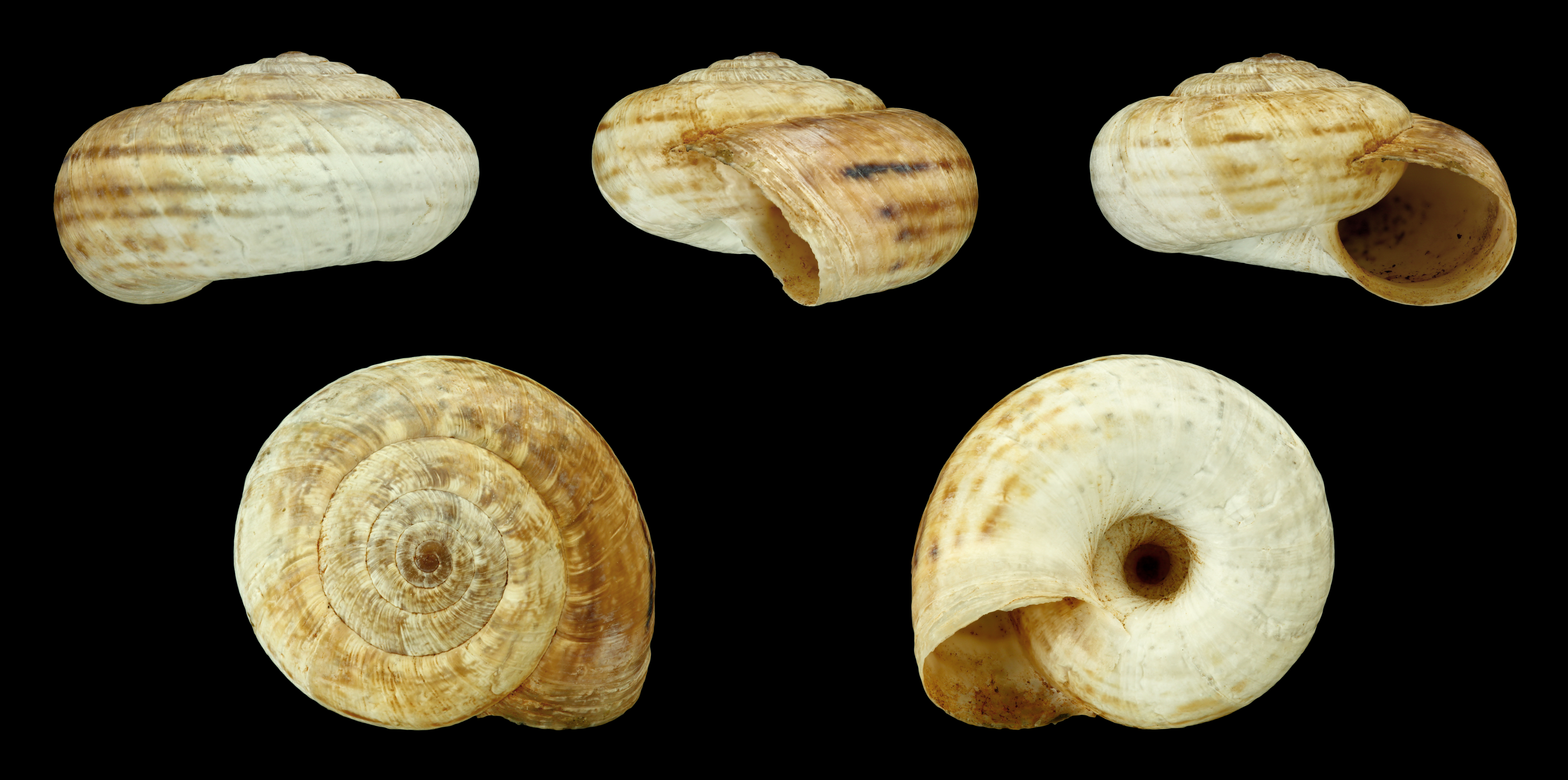 Diameter 1.9 cm; Originating from the roadside between Montferrat and Comps sur Artuby, Dept. Var, France; Shell of own collection, therefore not geocoded.